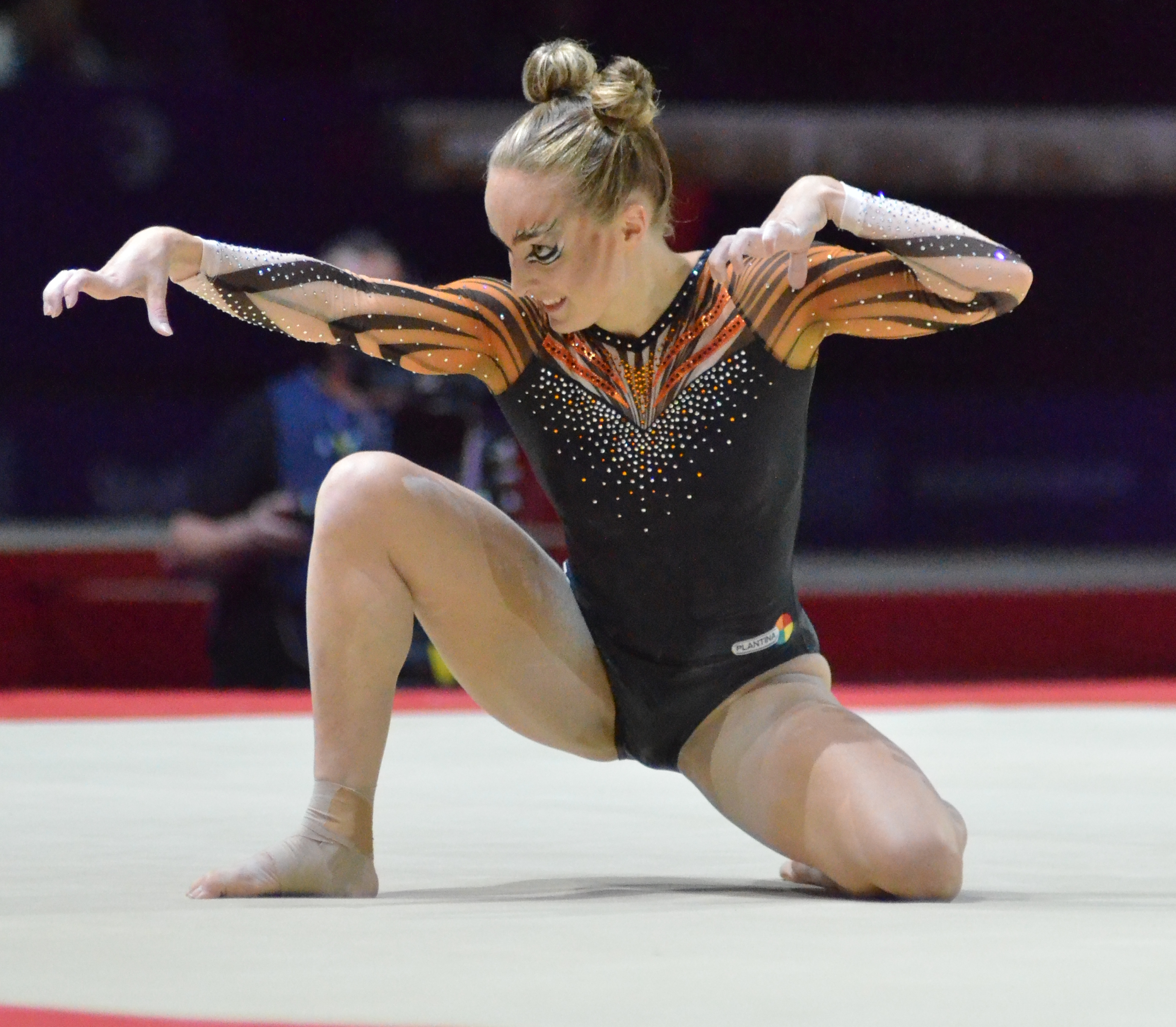 Céline van Gerner (NED) of the Netherlands performs her Cat Floor routine inspired by 1981 musical "Cats" by A.L.Weber during Women's Individual Floor Final during the gymnastics on Day Four of the European Championships Glasgow 2018 at The SSE Hydro on August 5, 2018 in Glasgow, Scotland. - Photo by Alex Filipov Instagram: @a.s.photoz